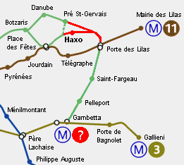 Mock-up of where Haxo would appear on the Paris Métro map if it were open, and lines 3bis and 7bis merged into new line. Adapted from Image:Paris Metro map.gif. Haxo is located on La voie des Fêtes, track between Place des Fêtes and Porte des Lilas. The track in the opposite direction is la voie navette, non-stop between Porte des Lilas and Pré Saint-Gervais.